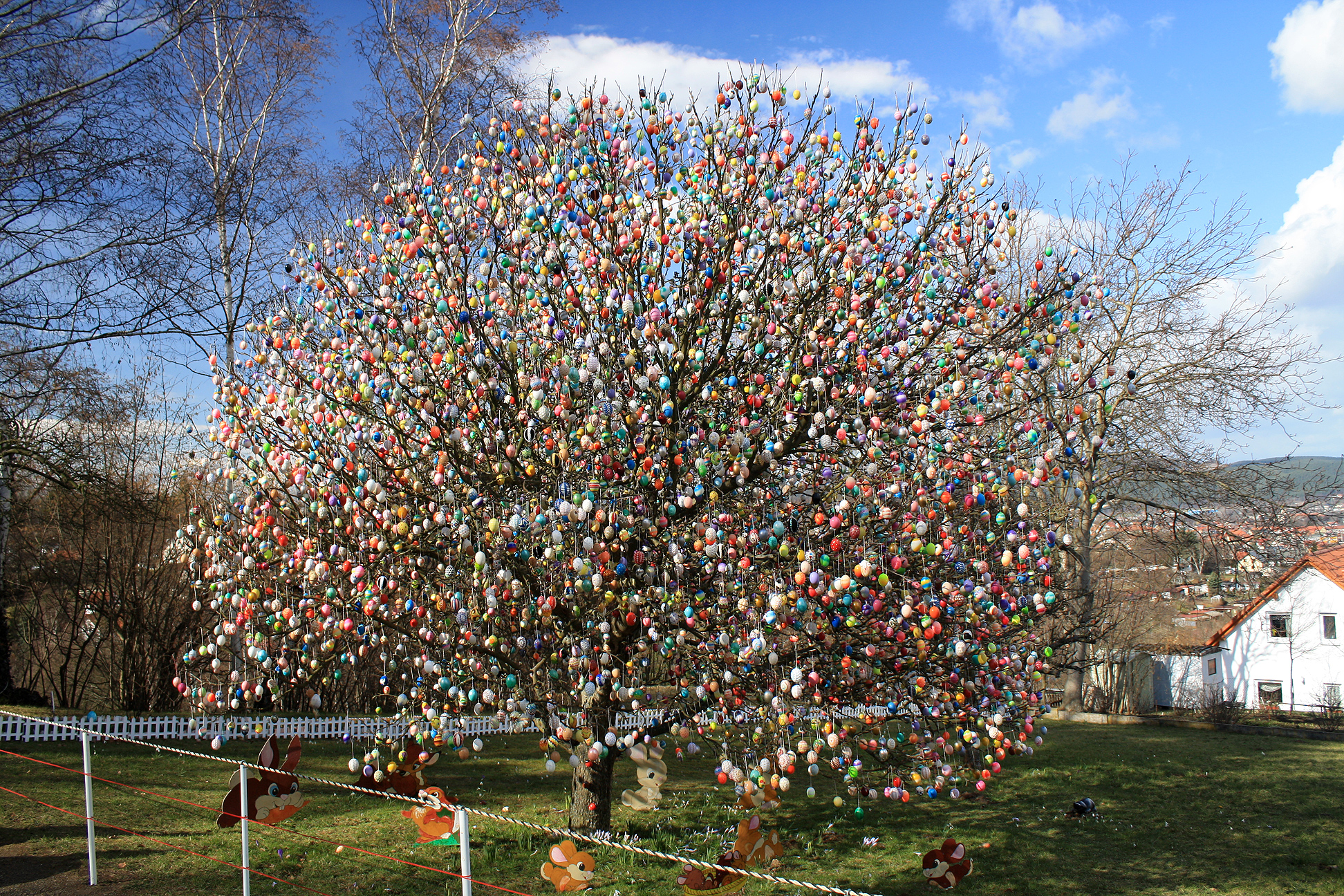 Saalfeld Egg Tree (2009) - with 9200 eggs.